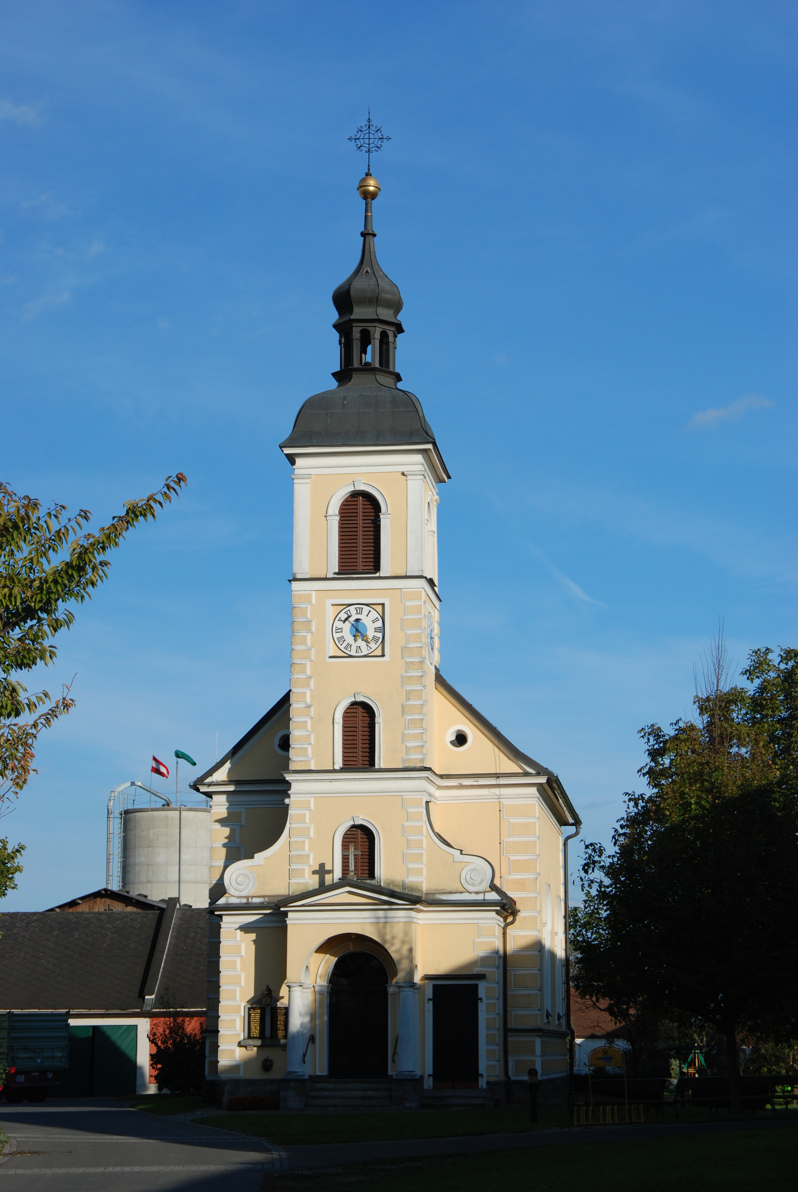 Ortskapelle Schiefer